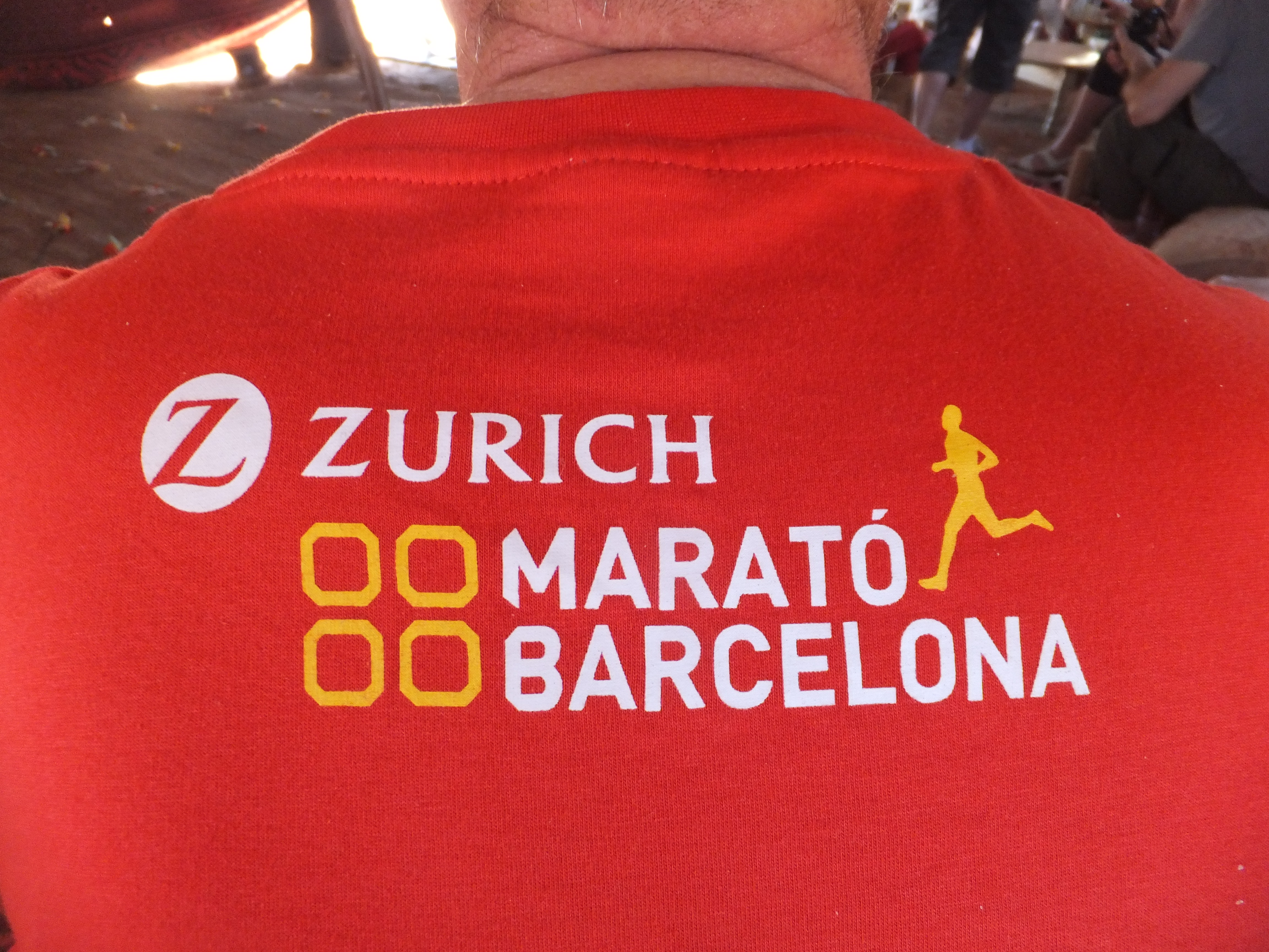 2012's Barcelona Marathon t-shirt's backside from Mizuno's brand.